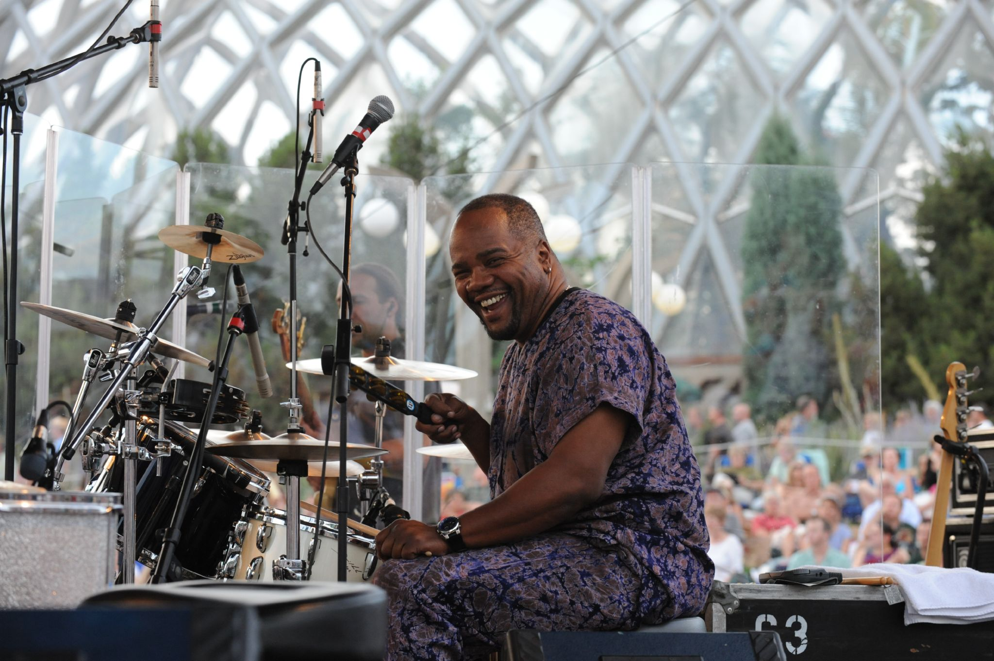 Yonrico Scott enjoying the show performing with the Derek Trucks Band